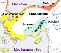 Greek dialects of Asia Minor prior to 1923 Population exchange between Greece and Turkey. Areas with the presence of Anatolian Greeks in 1910. Demotic Greek speakers in yellow. Pontic Greek in orange. Cappadocian Greek in green with individual towns indicated.[1] Shaded regions do not indicate that Greek-speakers were a majority.